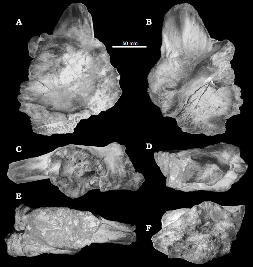 Fig. 1 from Andrea Cau's, Fabio Marco Dalla Vecchia's and Matteo Fabbri's 2012 paper (cited below) describing the left frontal bone MPM 2594, the holotype of carcharodontosaurid theropod dinosaur species Sauroniops pachytholus. According to Cau et al. the bone is shown in dorsal (top left), ventral (top right), lateral (middle left), anterior (middle right), medial (bottom left), and posterior (bottom right) views.